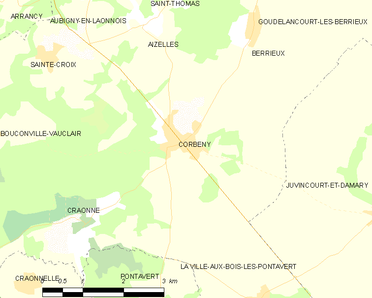 Map of French commune: Corbeny Map commune FR insee code 02215.png